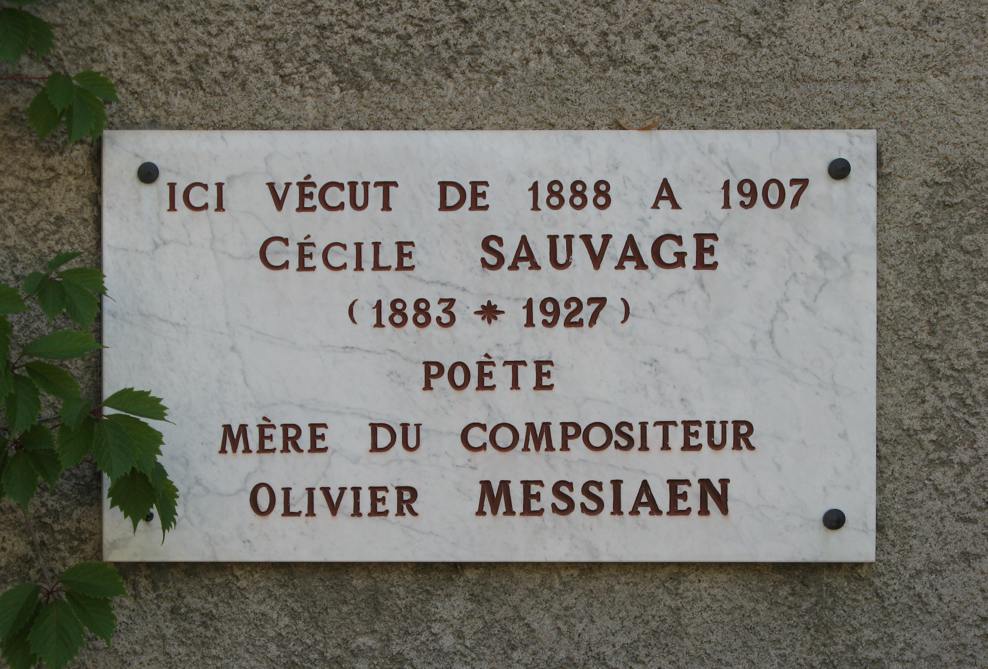 Plaque paying homage to Cécile Sauvage, French woman poet, in Digne-les-Bains (Alpes de Haute-Provence)